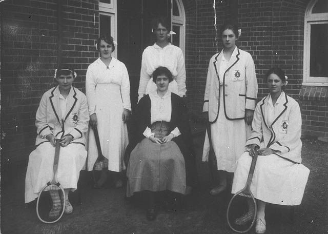 Image title: Tennis team, Presbyterian Ladies College, Pymble - Sydney, NSW Description: Student tennis team of Pymble Ladies' College, 1917.